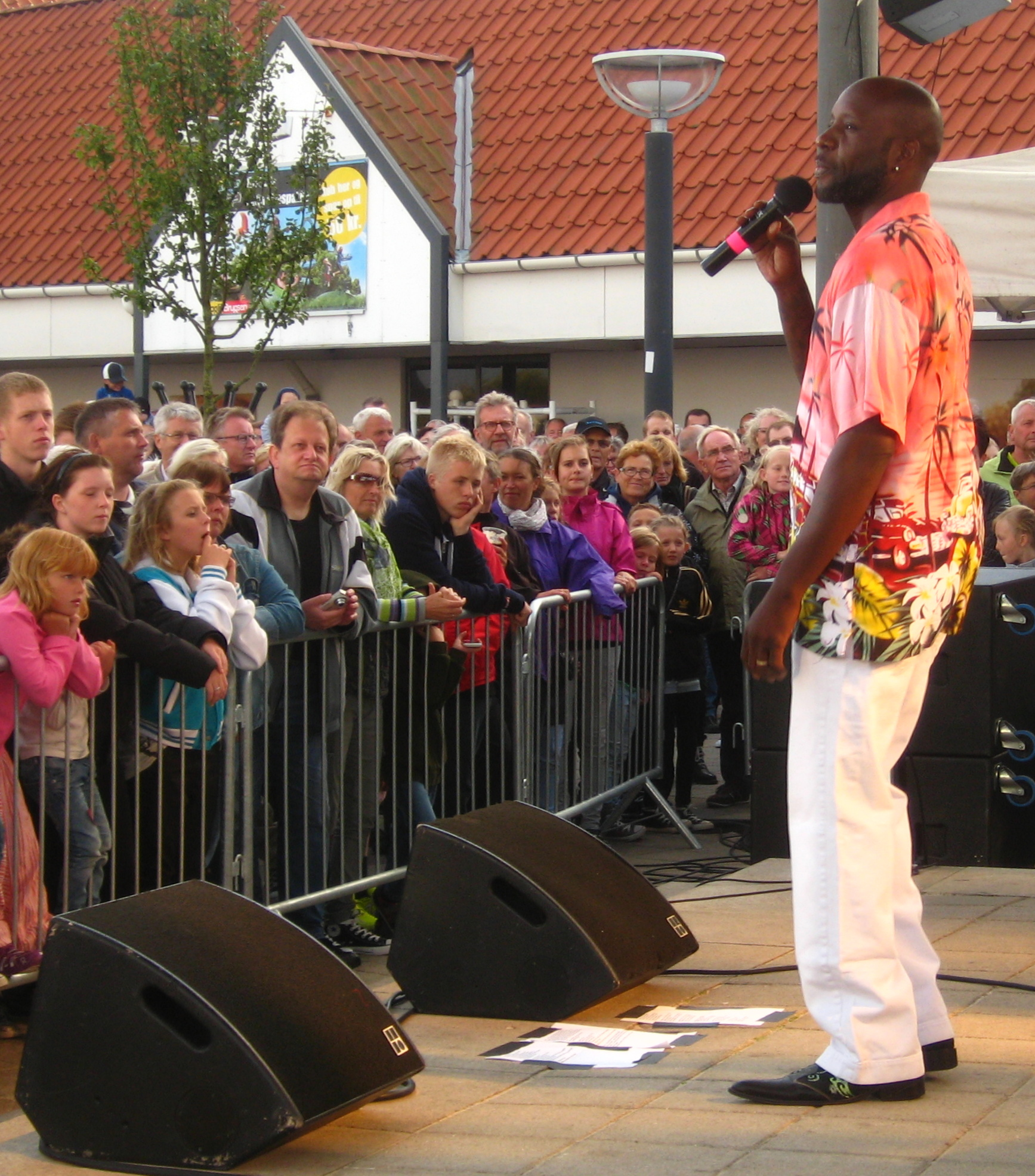 James Sampson performing in Blokhus, Denmark, 2012